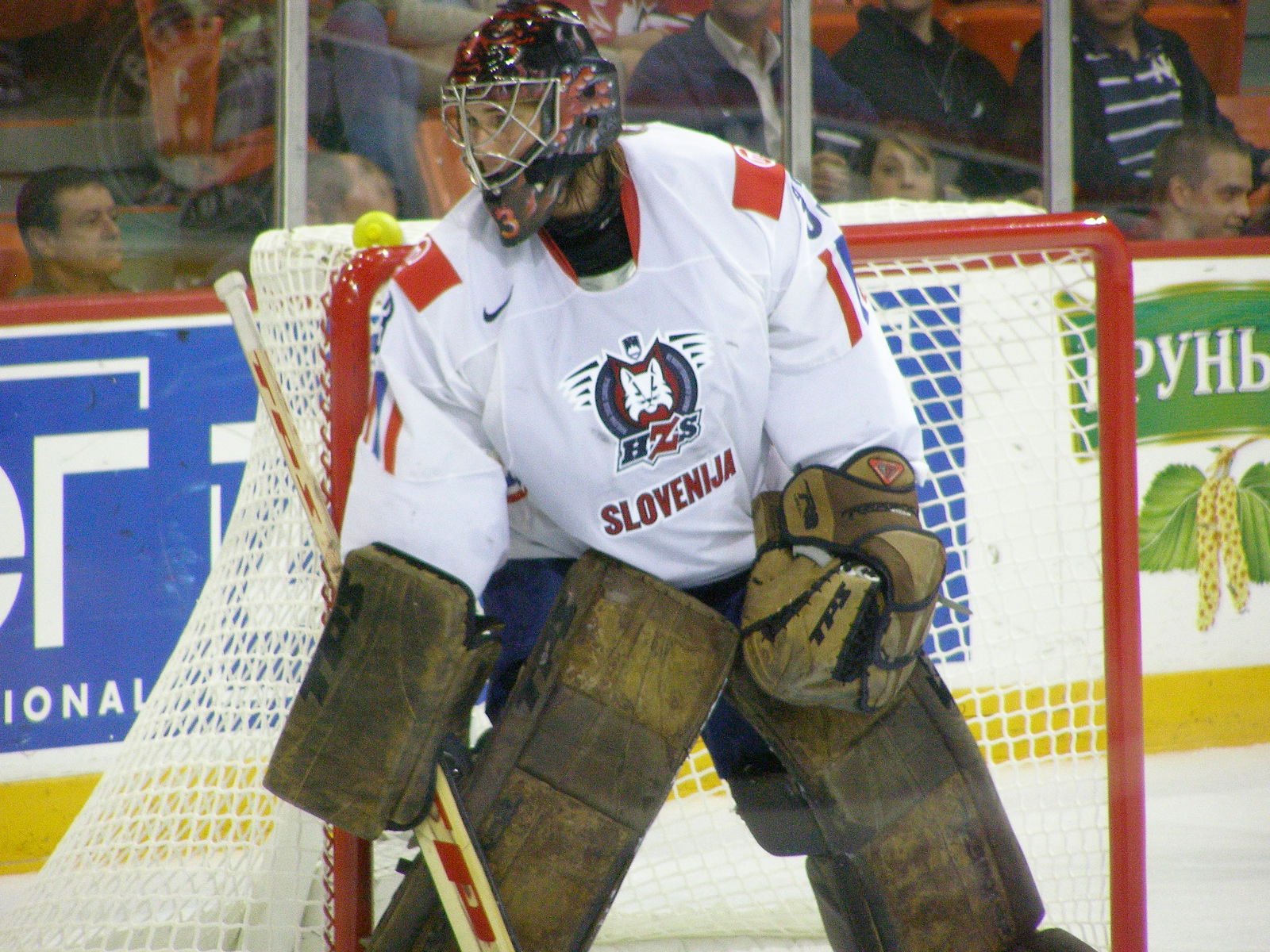 Slovenia VS USA (IIHF World Hockey Championship in Halifax NS, May 4 2008)